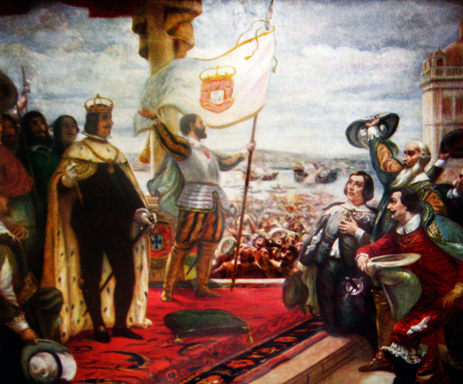 John IV of Portugal being proclaimed king.